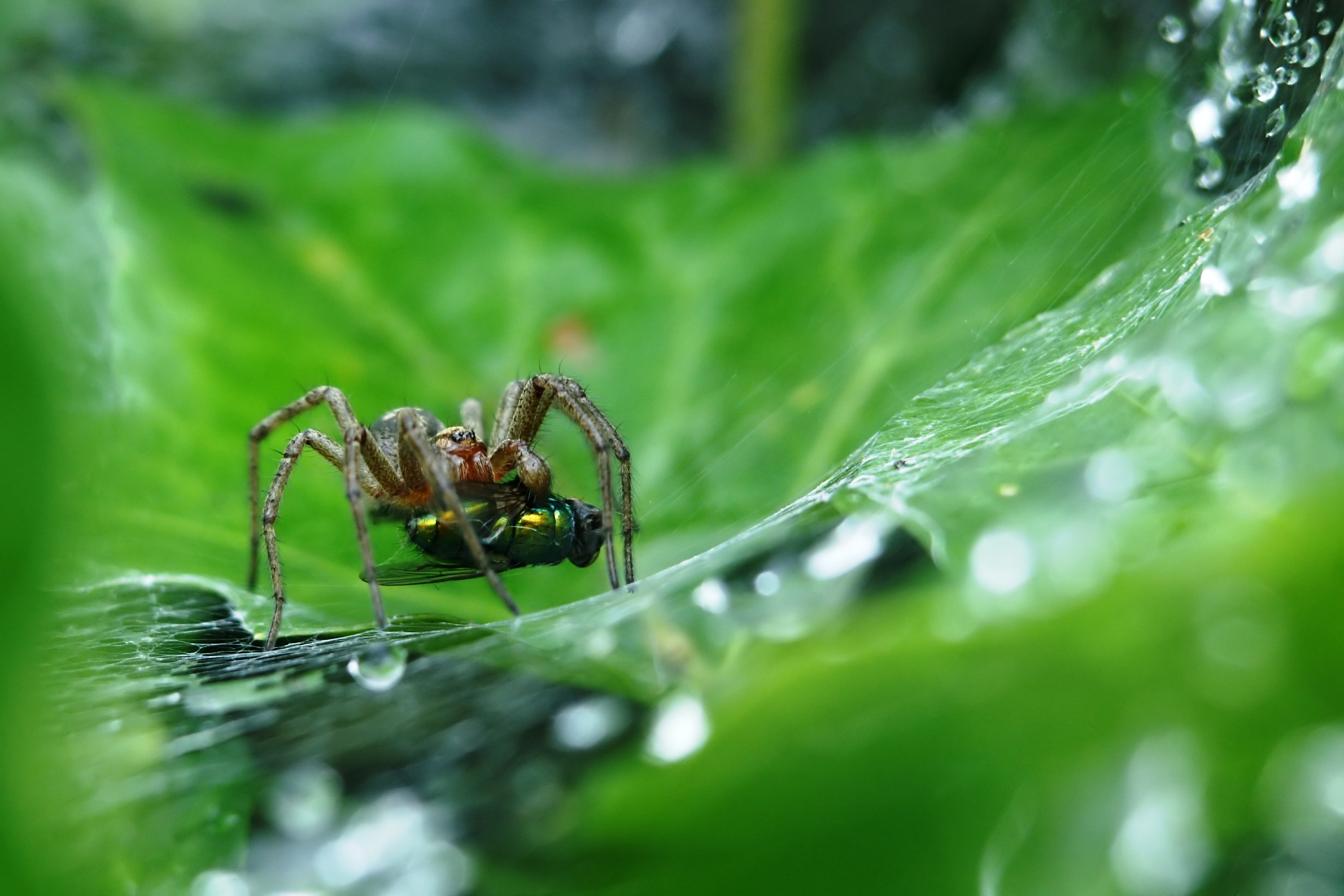 Araneomorph funnel-web spider on the hunt for a blowfly.